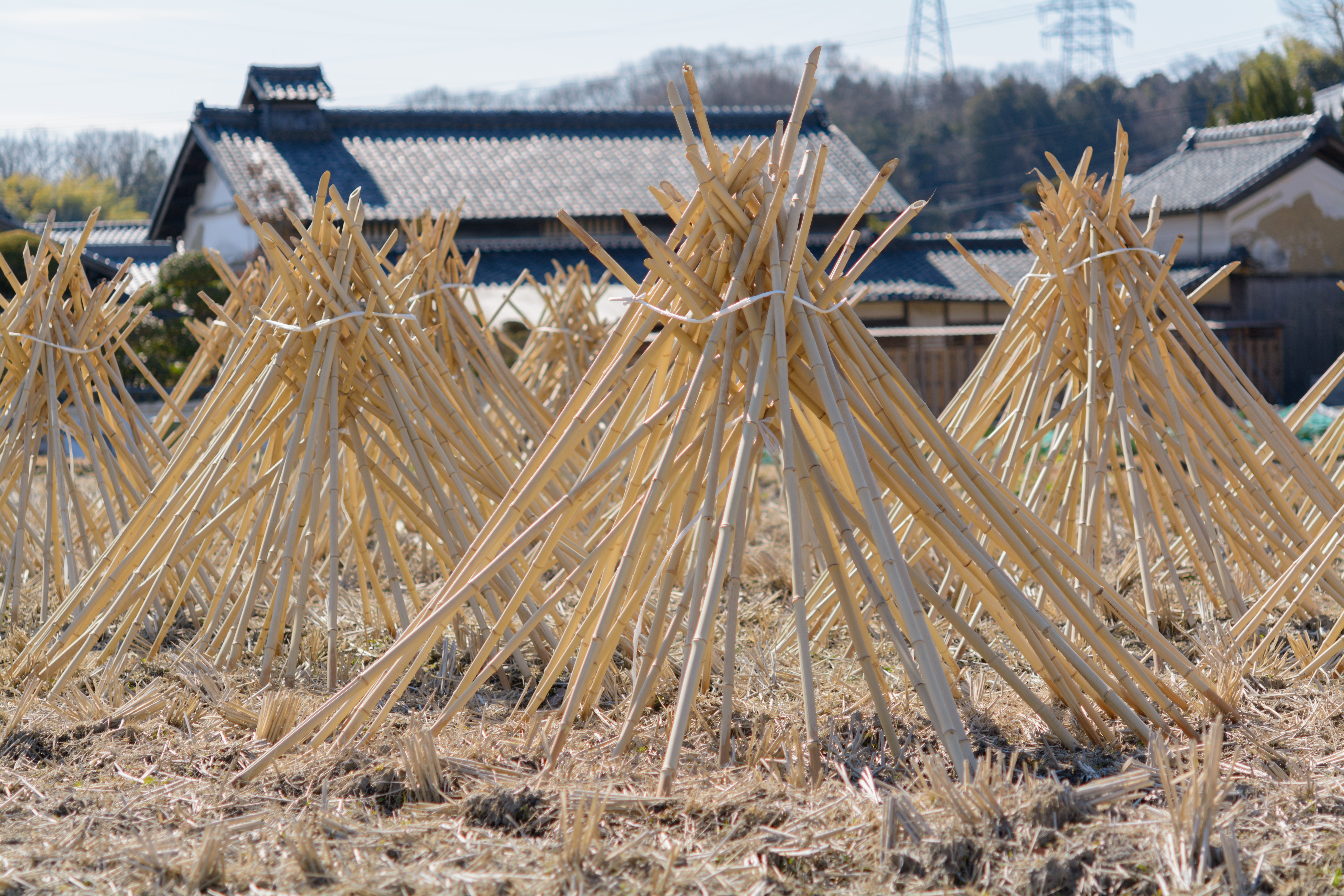 "Take no Kanboshi" is desiccation by the sun of bamboos for making a "Chasen" (Tea whisk). From late winter to early spring, it is a daily sight around Takayama Region of Ikoma, Nara Prefecture.